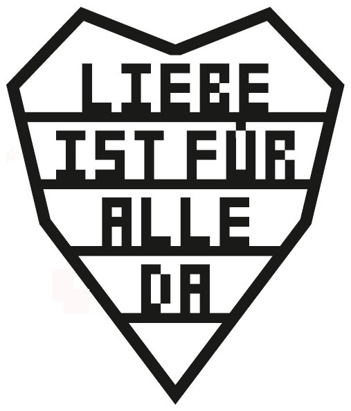 Logo. In the Facebook Page ( the Author(s) EXPLICITY states: "Take our symbol and spread it..."